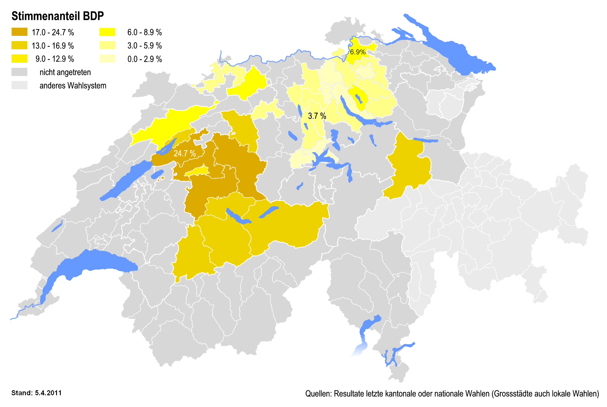 Geographical overview on the votes share of the Conservative Democratic Party of Switzerland in the districts.